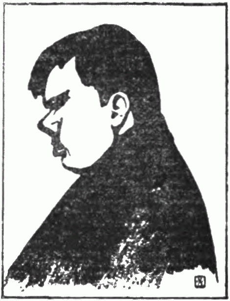 Dušan Popović (1877–1958), Croatian lawyer and politician